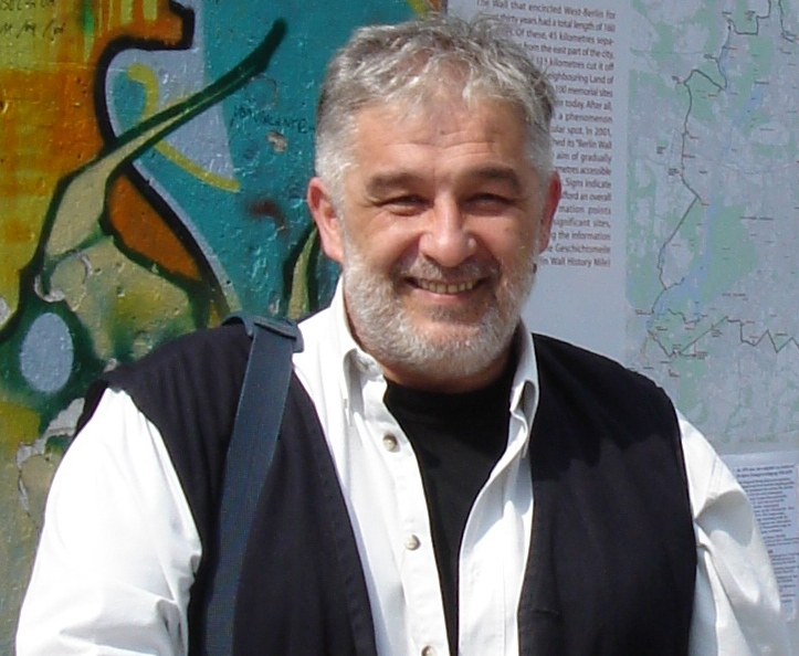 A portrait of Zoran Erić, Serbian composer